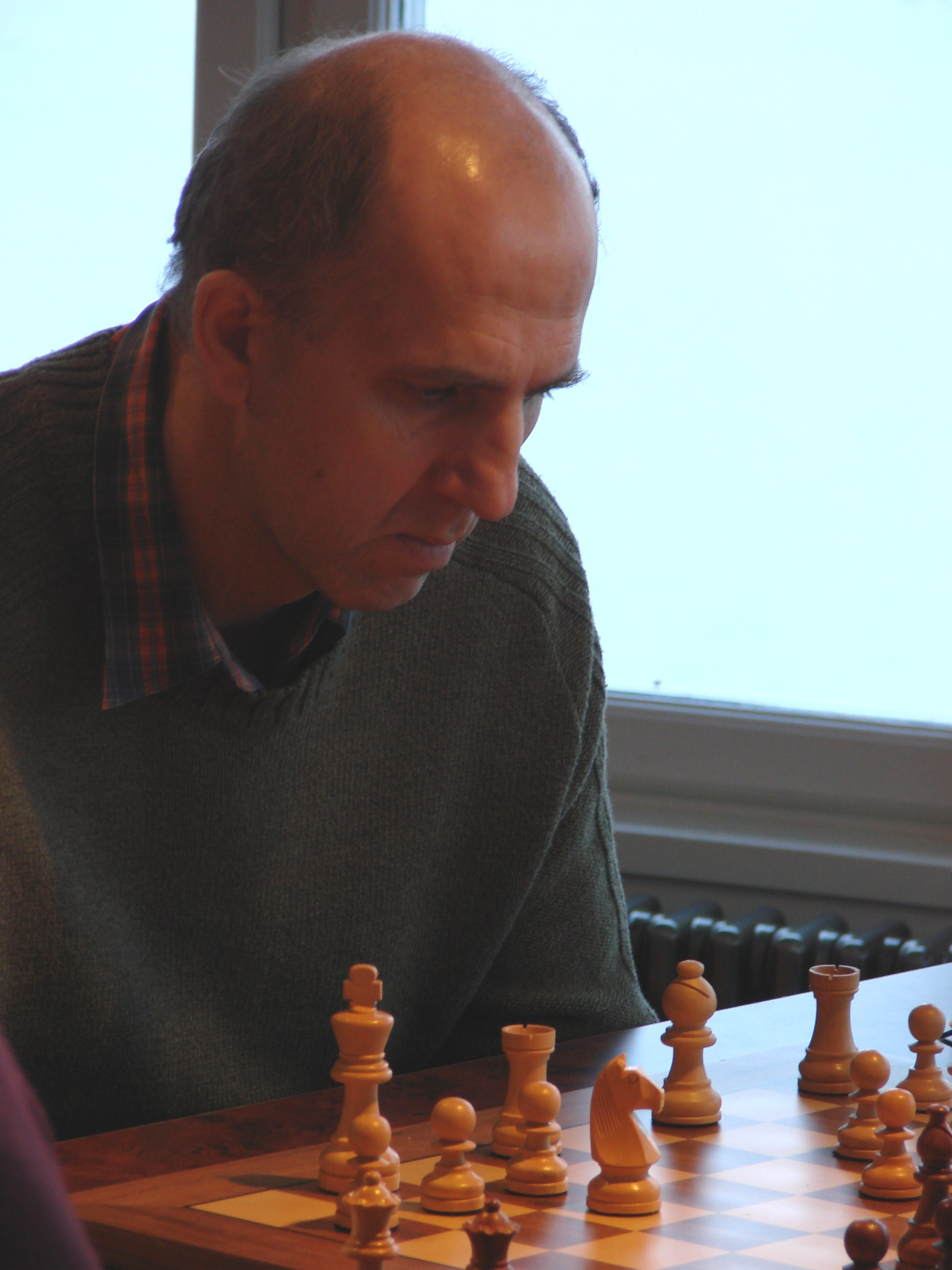 IM Alexei Gavrilov (Russia), Rilton Cup Stockholm 2009/10